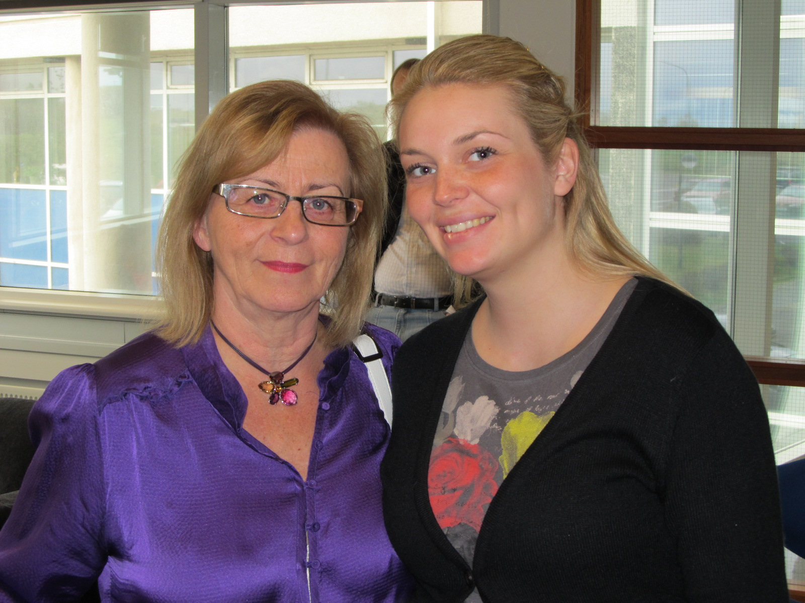 Katrín Fjeldsted (to the left), an member of the Icelandic parliament, and Ástrós Gunnlaugsdóttir.